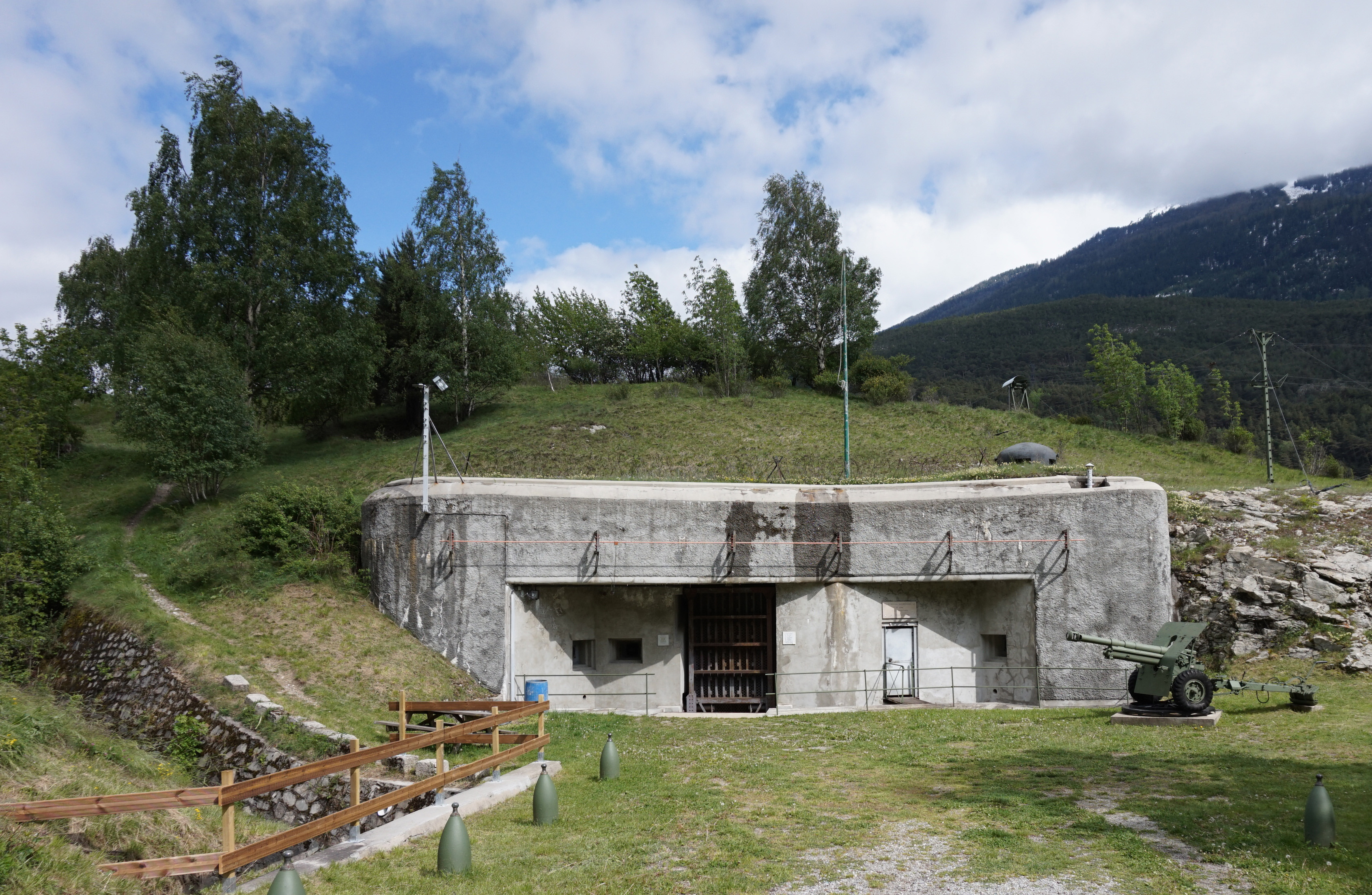 Bunker near Modane, France.!This photograph was taken with a Sony Alpha a5000.